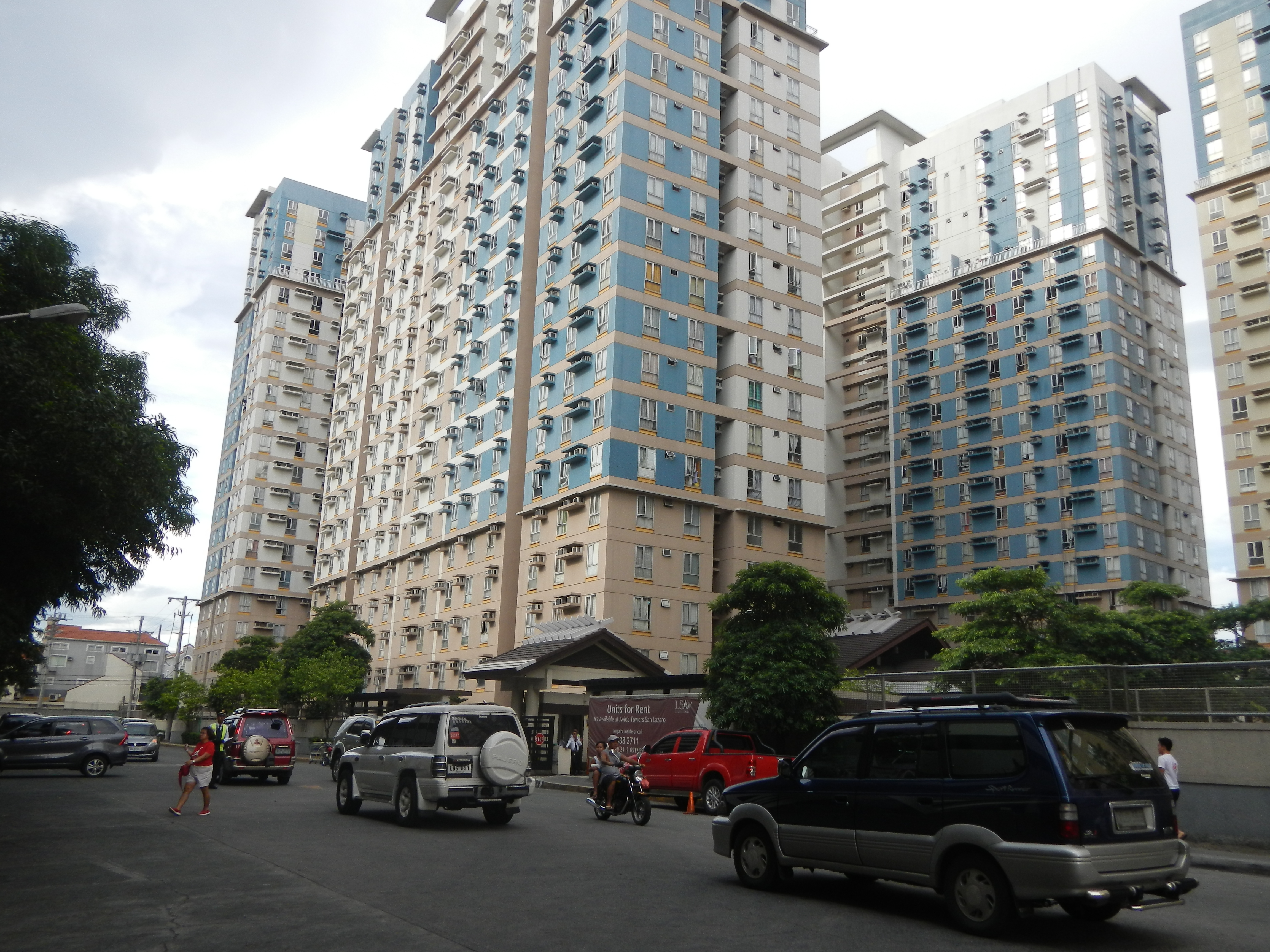 Vertex One, The Celadon, Celadon Park and Celadon Residences, Avida Towers San Lazaro, Winford Hotel & Casino, Winford Leisure and Entertainment Complex, San Lazaro Tourism and Business Park includes (the landmarks, SM City San Lazaro, The Celadon, Vertex One and Avida Towers San Lazaro, the two-tower Vertex office complex, the three-tower Celadon Park and Celadon Residences, and the five-tower Avida Towers San Lazaro condominium complex, Ayala Land, it has been declared a tourism economic zone Tourism economic zone with information technology component in 2009, Winford Hotel of the Winford Leisure and Entertainment Complex, along Consuelo Street corner MJC Drive along Felix Huertas Street corner Lacson Avenue Circumferential Road 2 from Rizal Avenue along Tayuman Street City of Manila, Santa Cruz, Manila, from the Tayuman LRT Station).